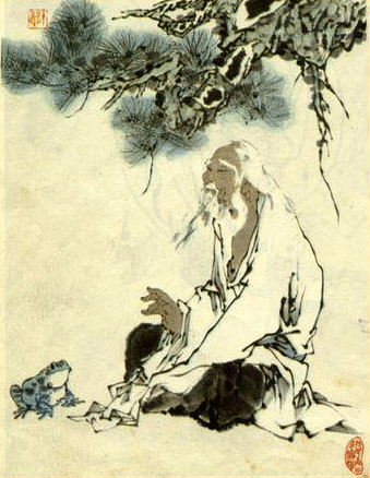 Master Zhuang and a frog.